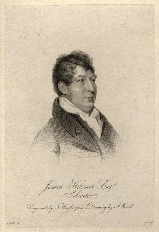 Portrait of James Harmer (1777–1853), English radical lawyer.